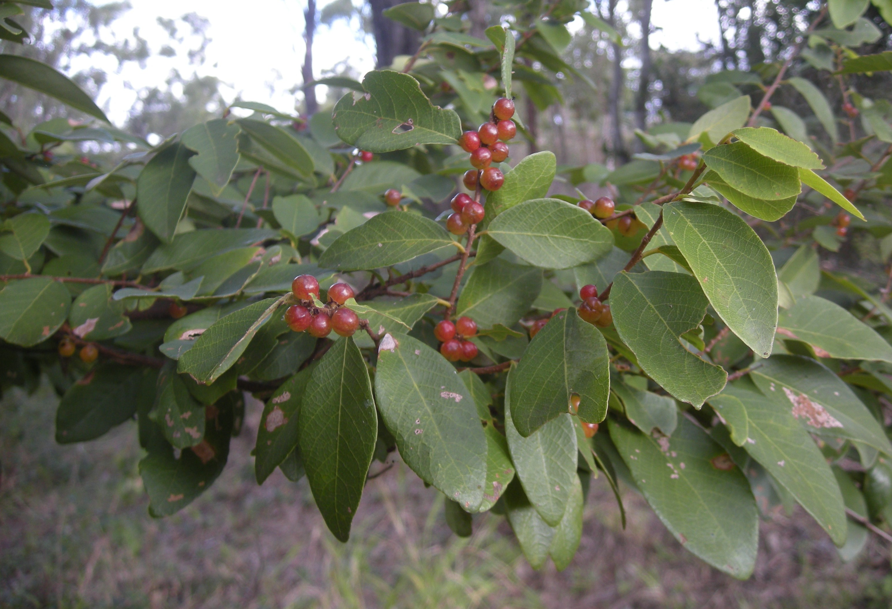 Bridelia leichhardtii foliage and flowers